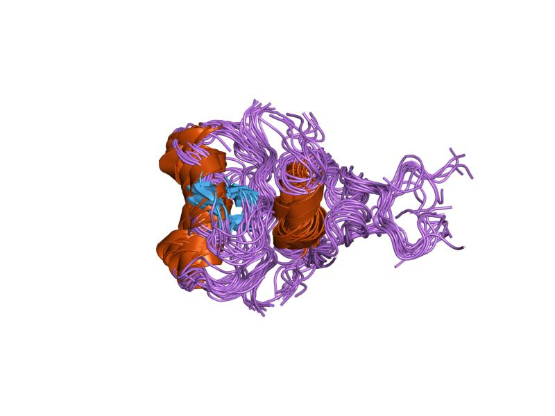 Cartoon representation of the molecular structure of protein registered with 1y0j code.